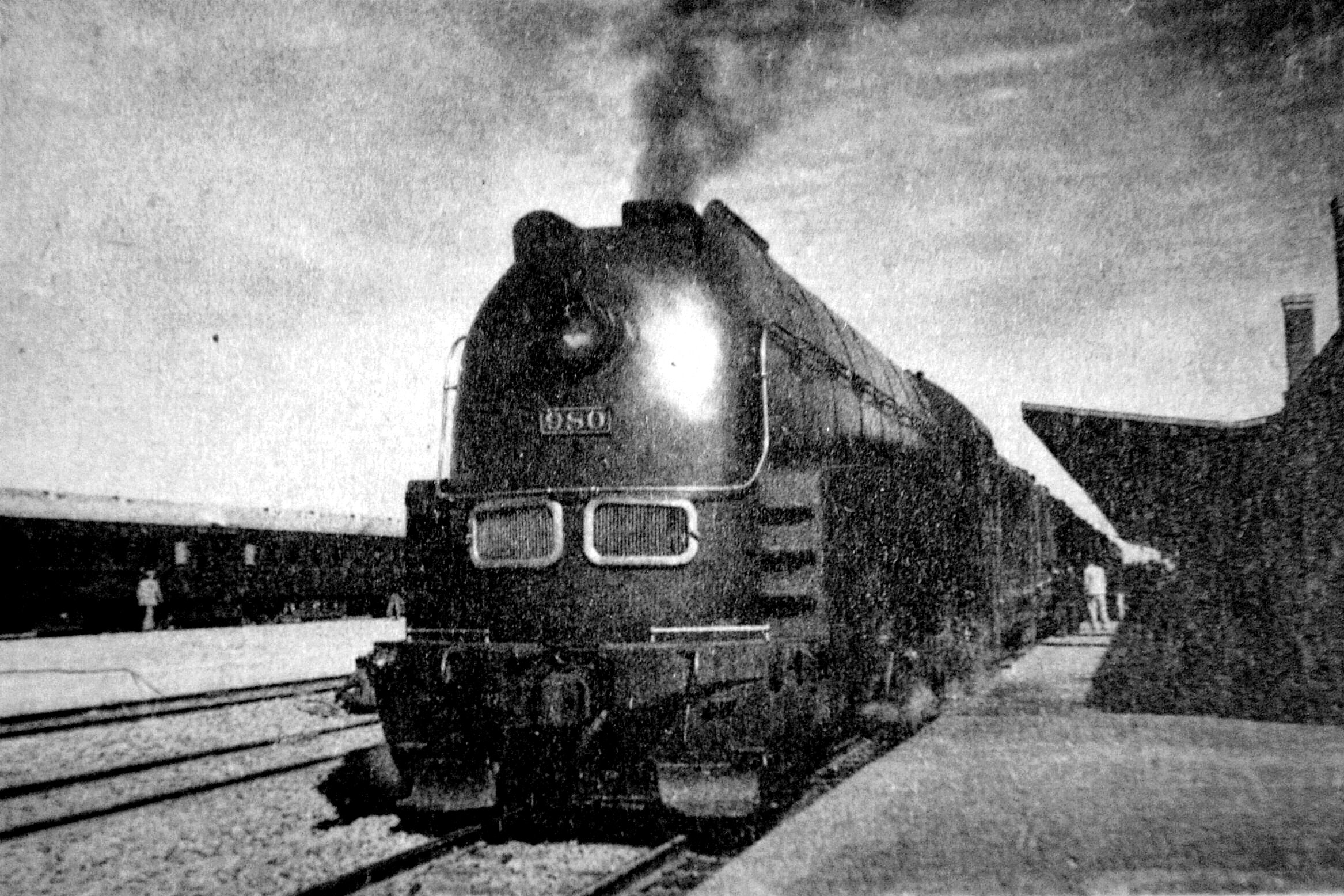 Super Express "Asia" of South Manchuria Railway